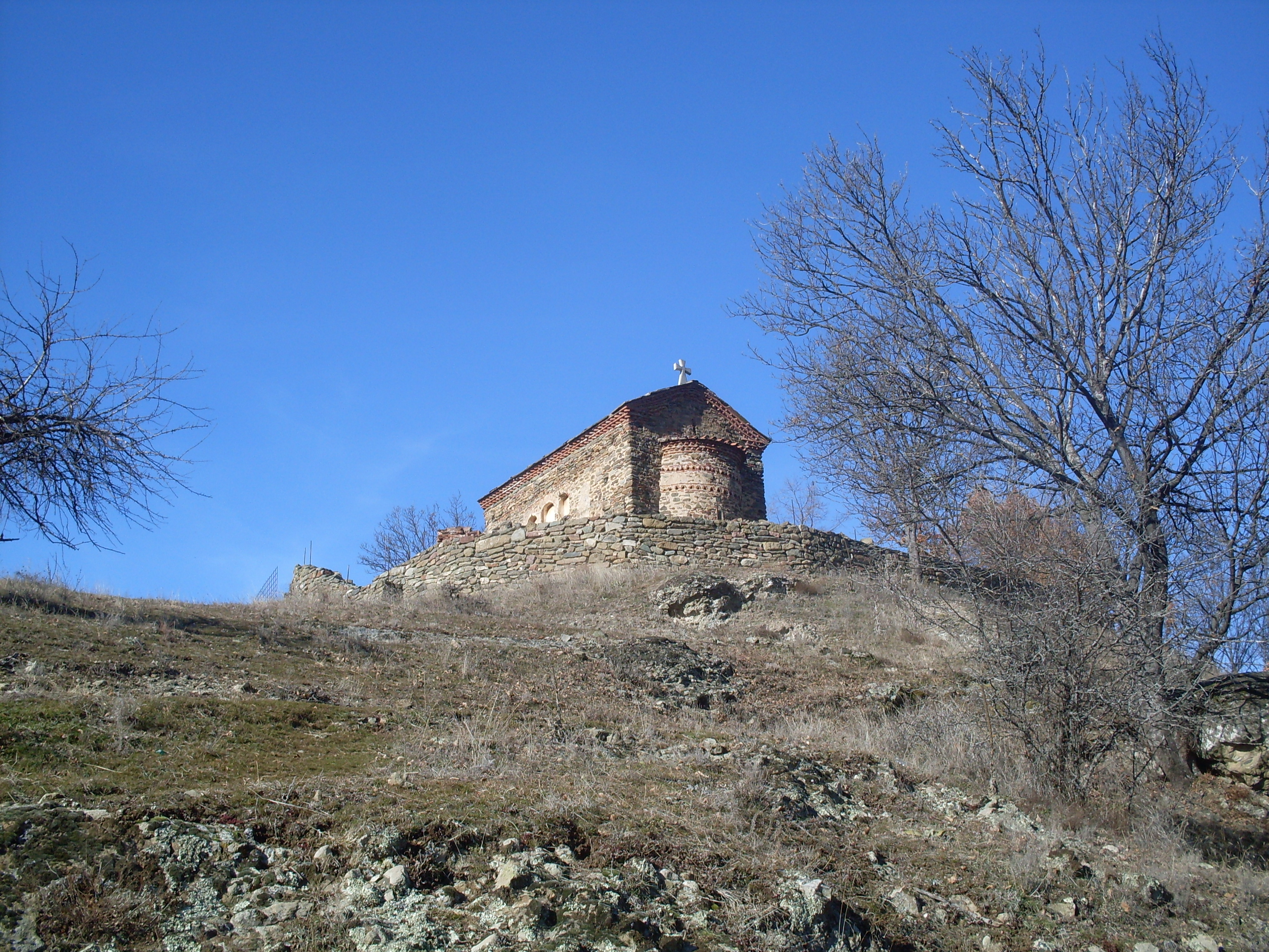 Church of the Most Holy Theotokos from the 14th century in Municipality of Trgoviste.